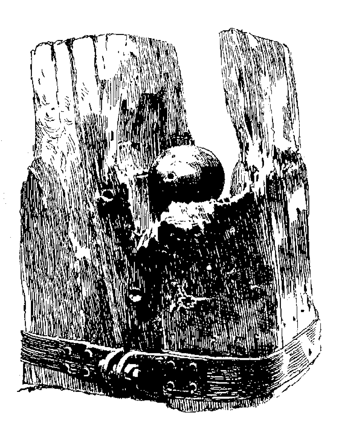 Original wood-engraving illustration scanned from 19th-century historical account of battle between Kearsarge and Alabama. Artifact is in the collection of the Naval Historical Center, Washington Navy Yard. When the image was first published, artifact was then in the [no longer extant] Ordnance Museum at Washington Navy Yard.